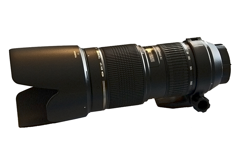 Tamron SP AF 70-200mm F/2.8 Di LD [IF] MACRO Lens with Nikon F-mount